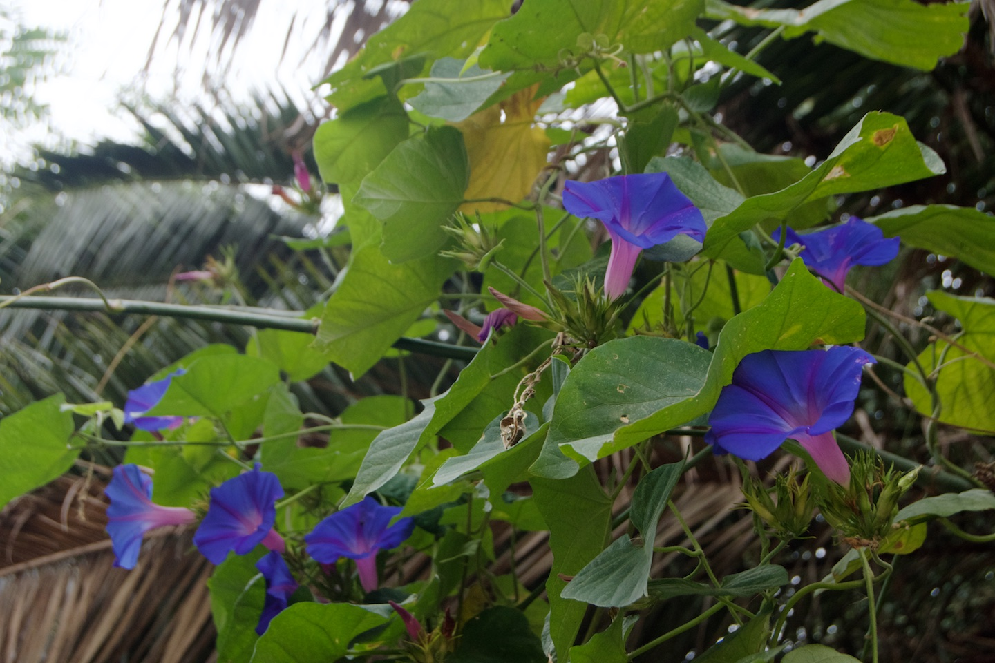 Morning Glory flowers in the Ecological Reserve in Buenos Aires, Argentina